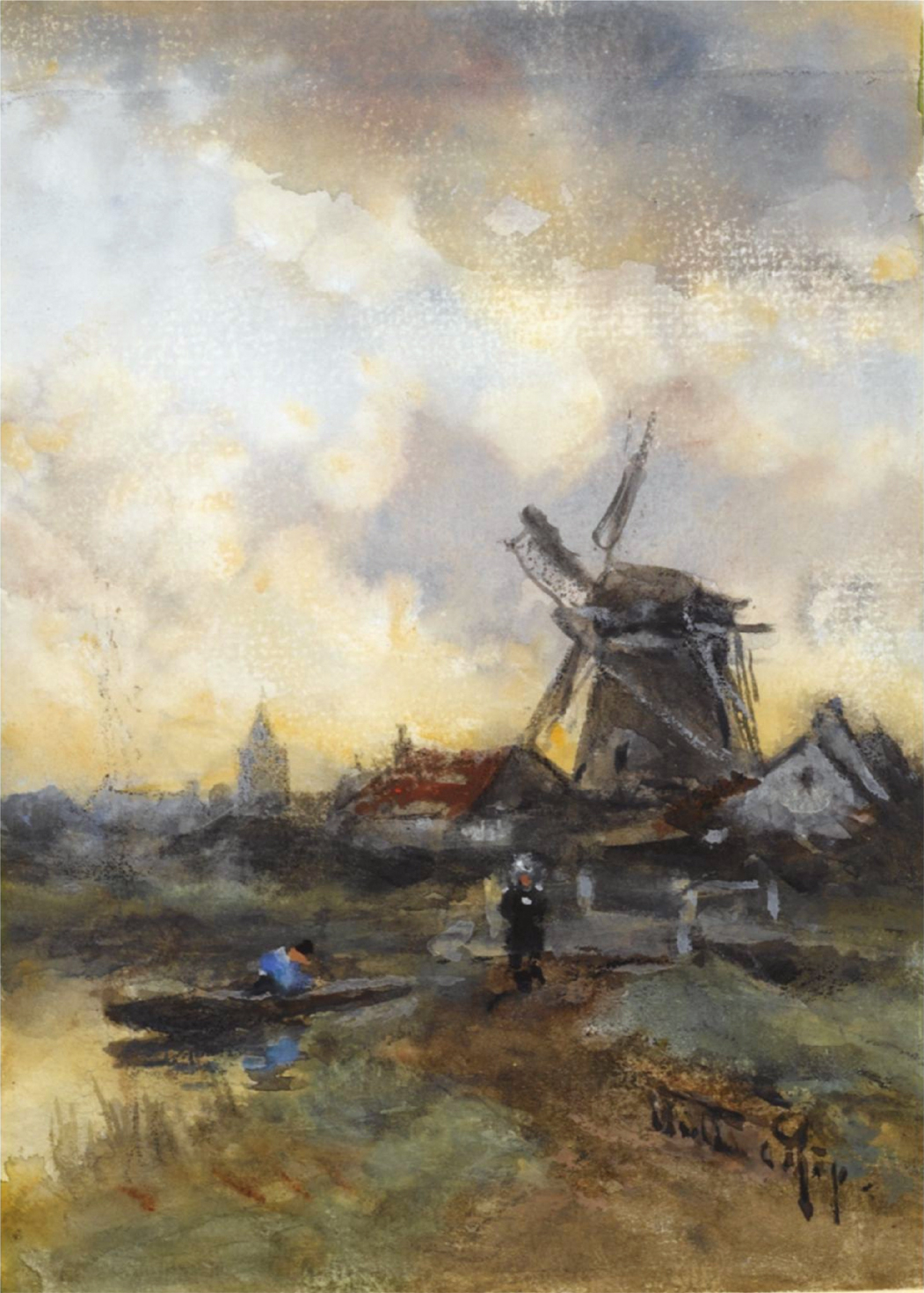 Autumn evening 17.4 x 12.5 cm. signed l.r.; signed, titled and inscribed Den Haag on the reverse watercolour, black chalk and gouache on paper